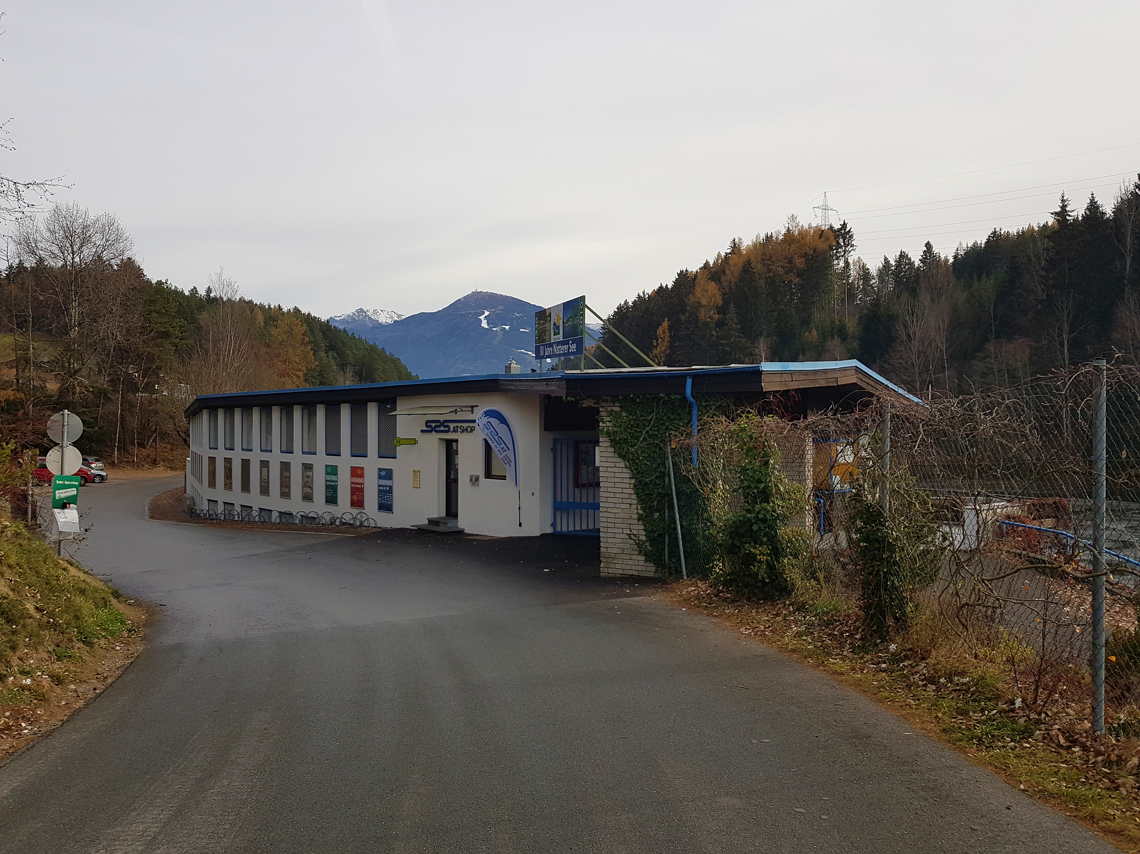 Natterer See